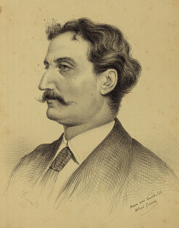 Portrait of Giuseppe Gariboldi, composer (1830-1905), before 1905.